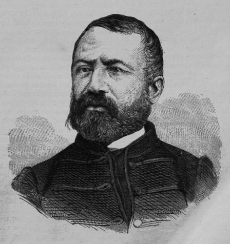 Portrait of the linguist Sándor Imre